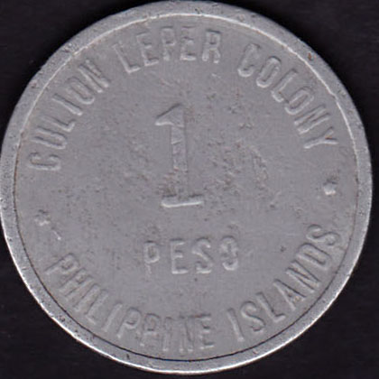 A 1 peso coin of 1913 used in the Culion leper colony in the Philippines